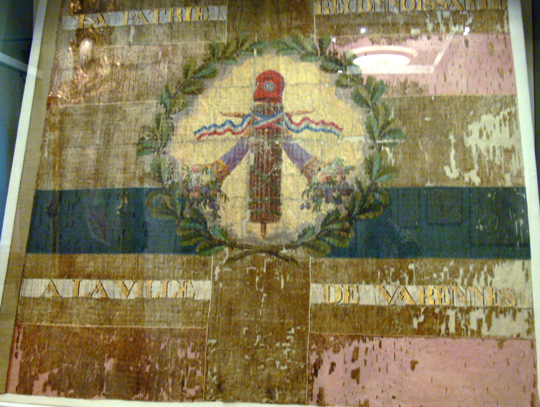 German Historical Museum ( Berlin ). Flag ( 1792 ) presented to the citizens of the town of Varennes for the capture of Louis XVI.